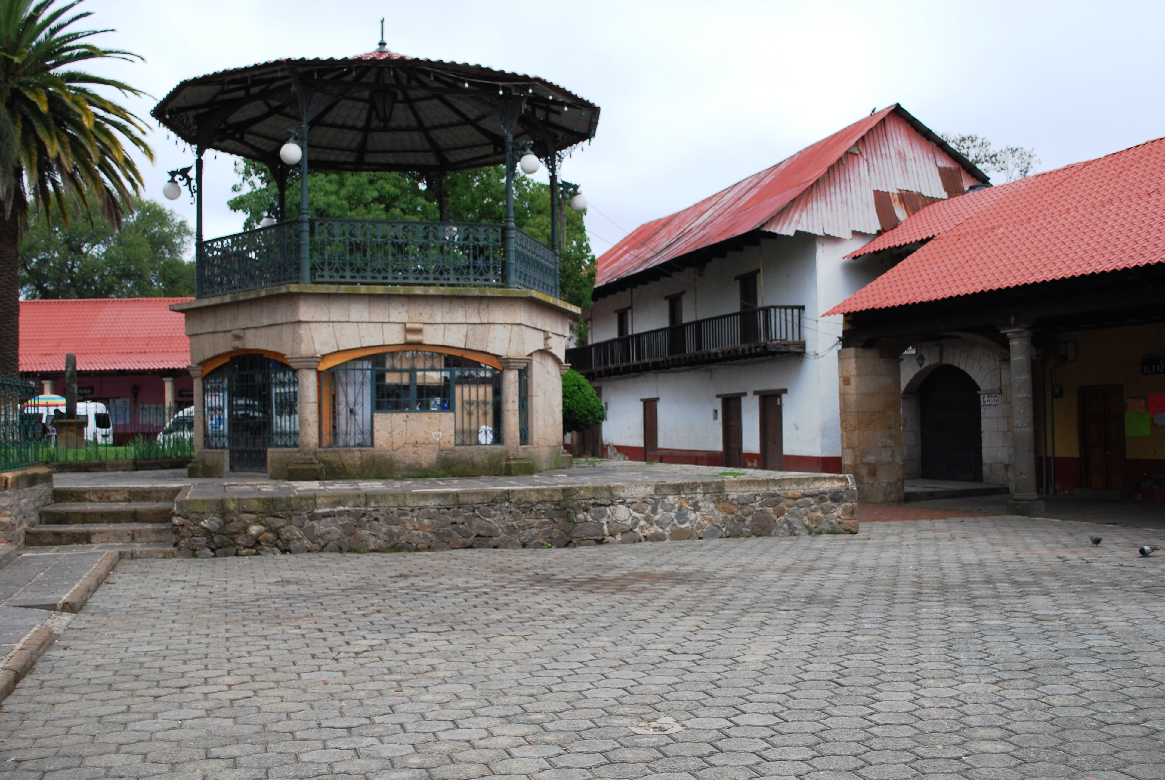 Kiosk in the town center of Huasca de Ocampo, Hidalgo, Mexico